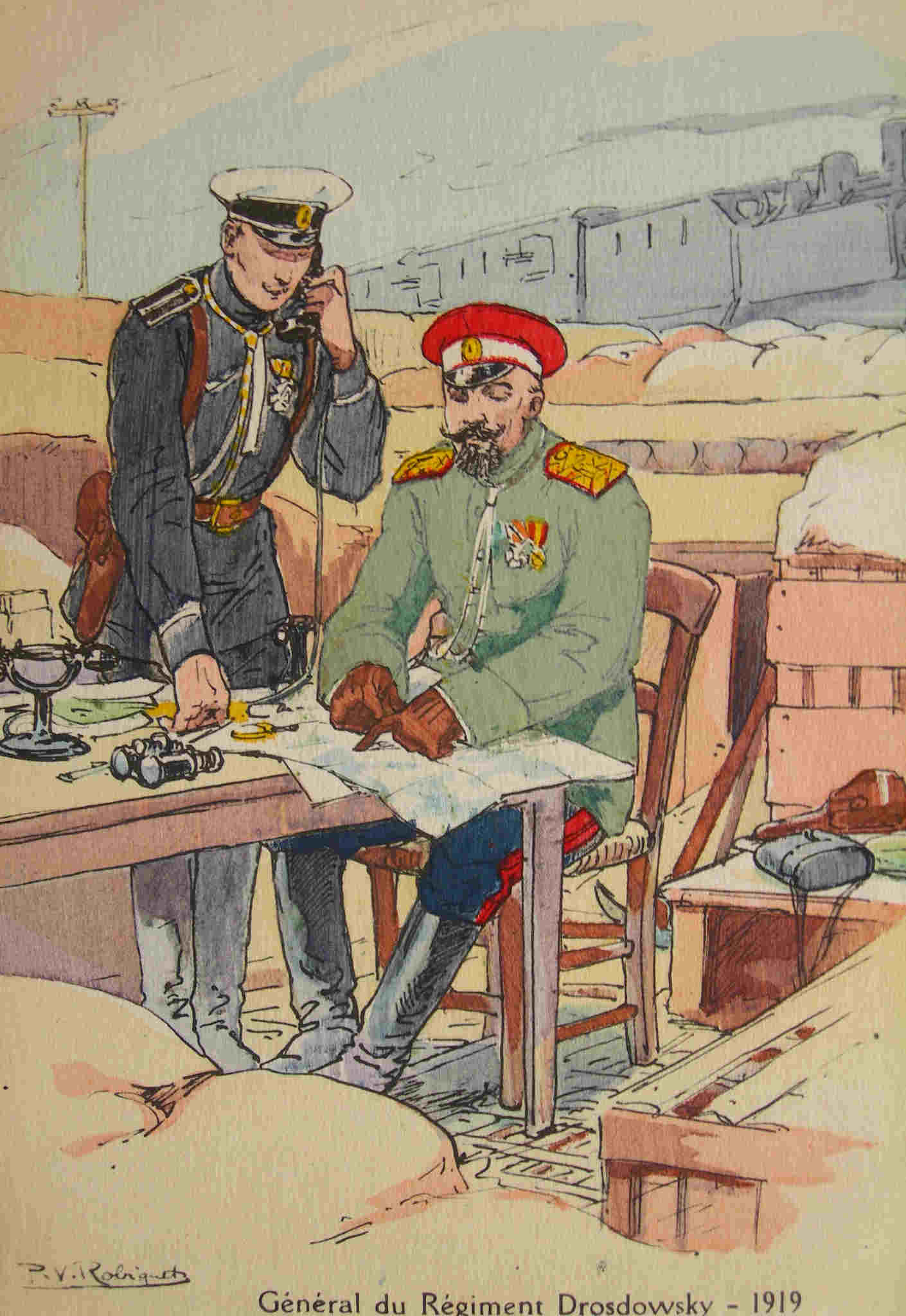 Uniform of Drozdovsky & Markovsky Regiments. 1919 Дроздовский и марковский белые офицеры на позиции возле бронепоезда. Рисунок из французского журнала Иллюстрация, октябрь 1919 года. Автор в источнике не указан.